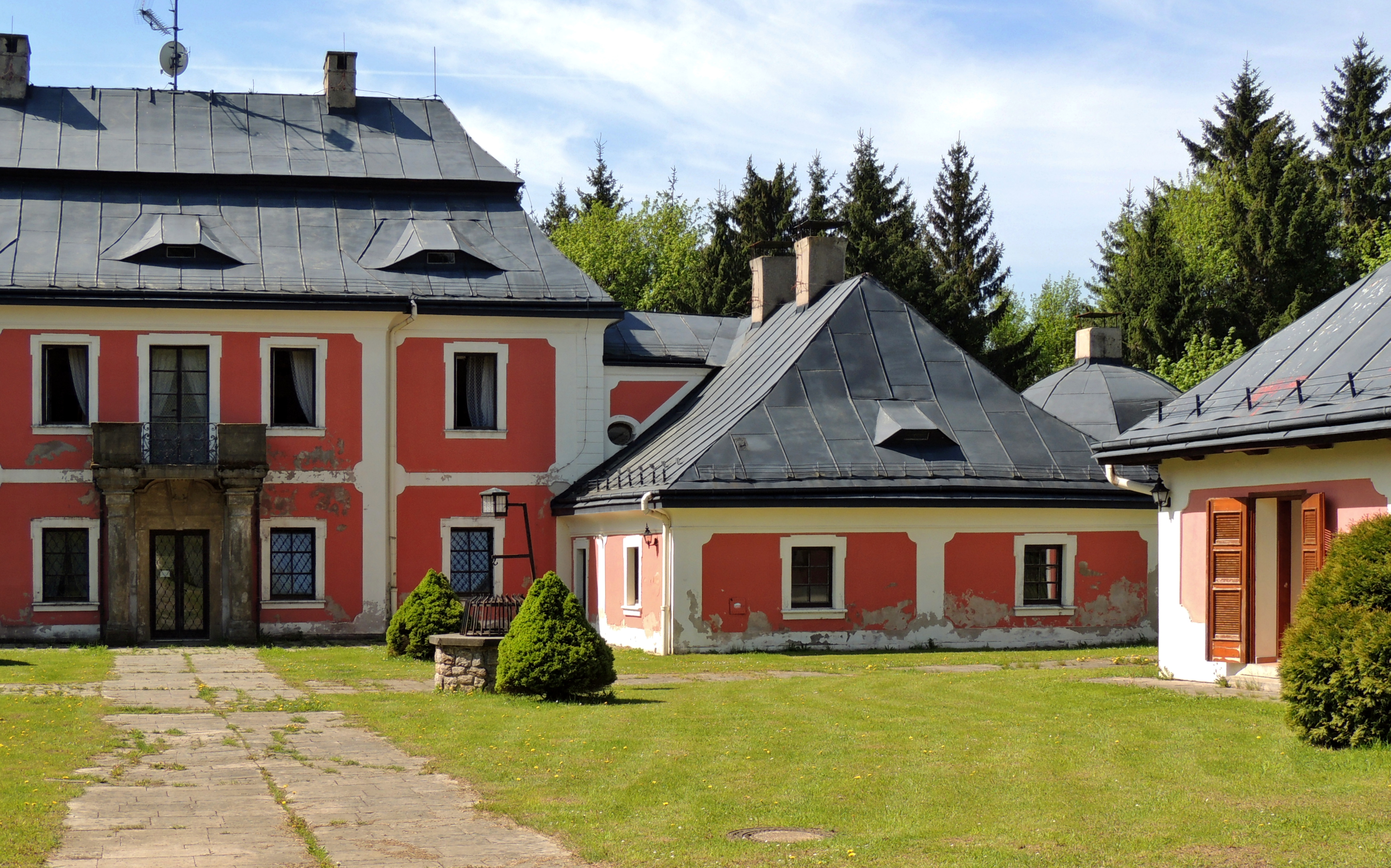 Front (northeastern) side of the middle castle pavilion with main entrance and the northwest side wing of the building (on the right in the photo the lower roof dome belongs to the building extension). In the courtyareal a stylish fireplace was built in the 20th century, above which is a lantern. Karlštejn on the cadastral territory of Svratouch is originally a hunting castle built between 1770 and 1775 in the style of Central European Baroque, the architecture of the castle is sometimes presented as a rococo style. Since 1958 is the castle a cultural monument and has been included in the catalog of the National Monument Institute. The castle complex is situated in the settlement location of Karlštejn, part of the village Svratouch, from an administrative point of view in the district of Chrudim belonging to the Pardubice Region in the territory of the Czech Republic. Photo-location: Czechia, Pardubice Region, the village of "Svratouch", the hill with named "Karlštejn", azimuth 222°.